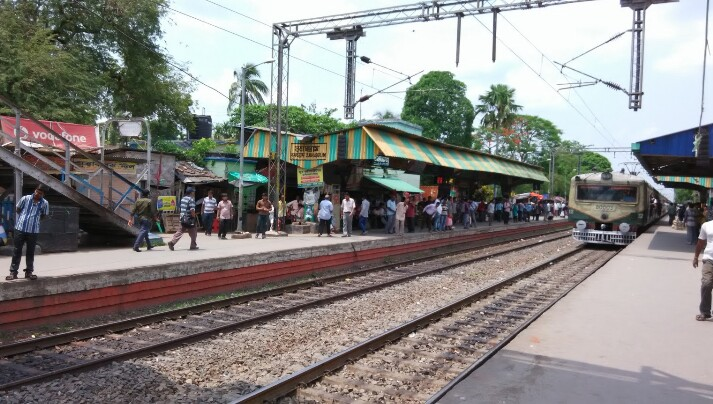 Subhashgram Railway Station